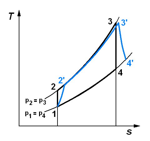 Real Brayton Cycle, T-s Diagram